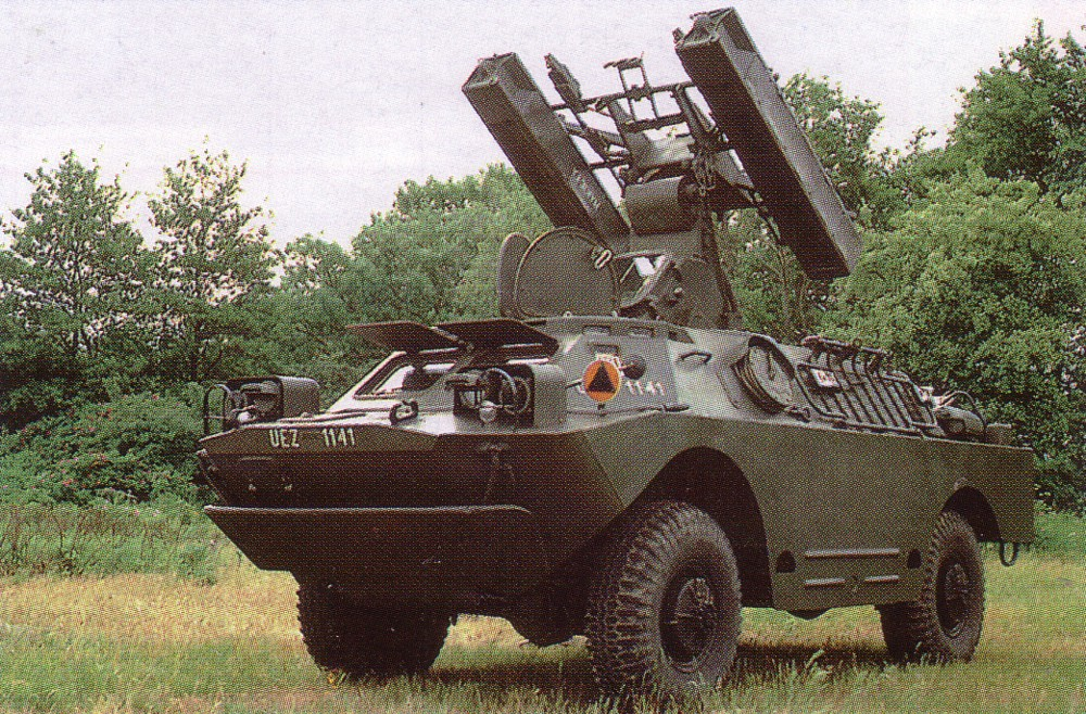 SA-9 Gaskin